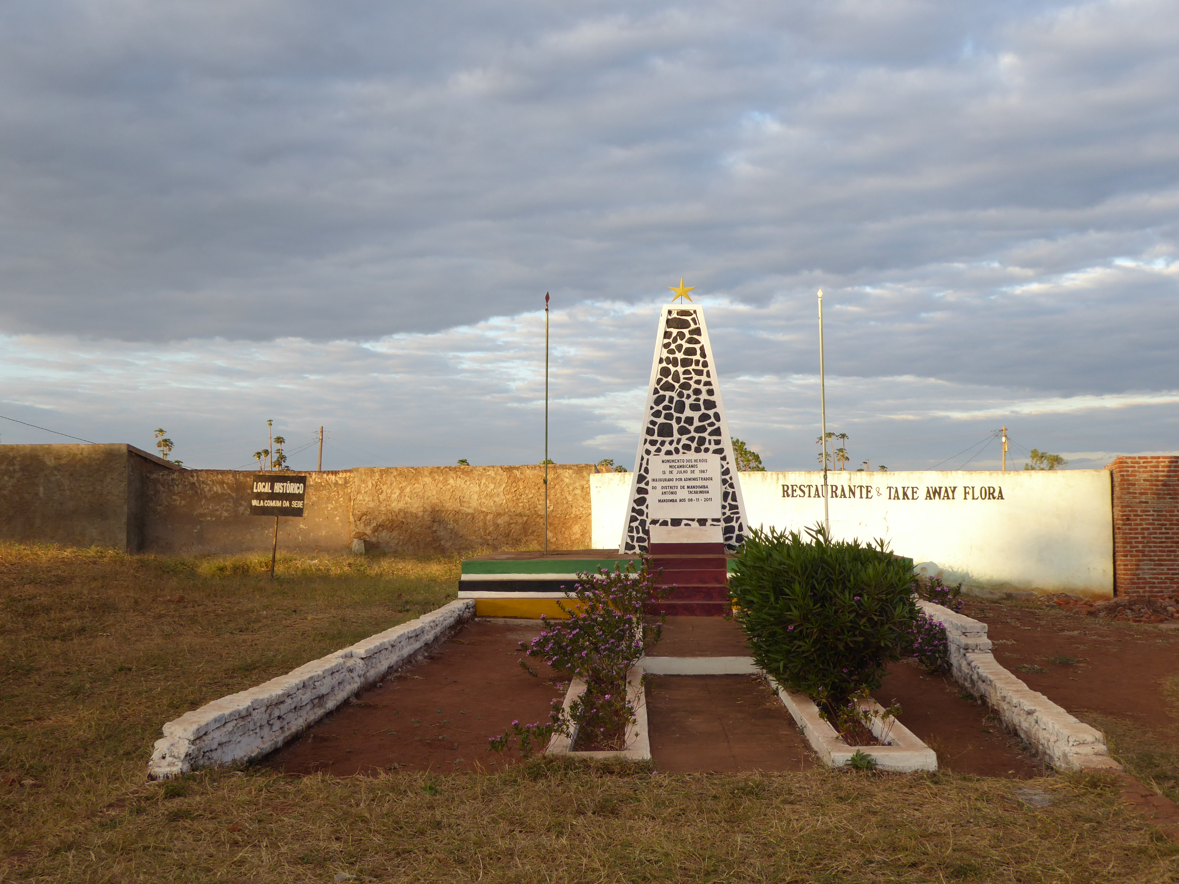 Monument for the Mozambican Heroes, Mandimba, Mozambique